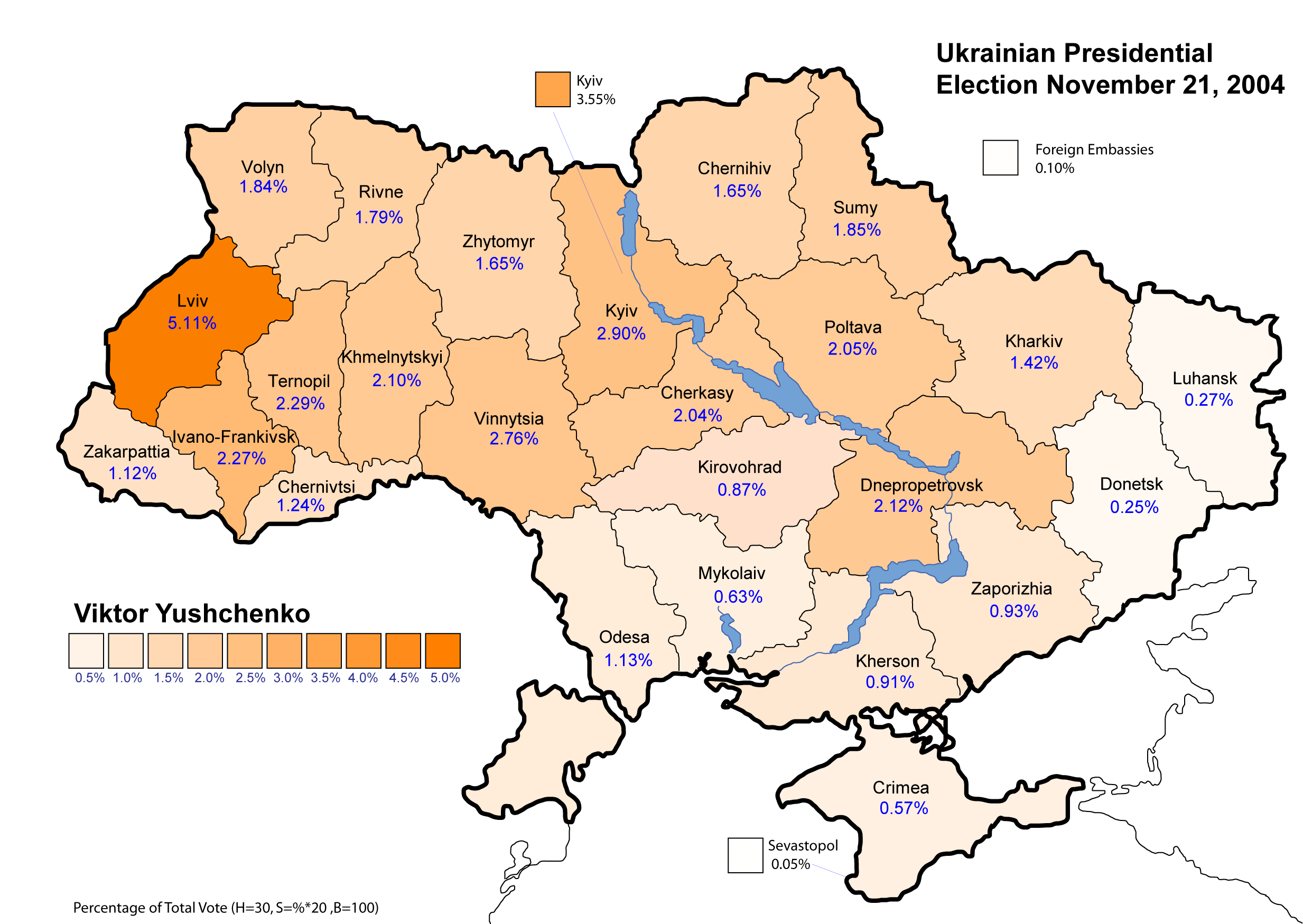 Ukrainian Presidential Election November 21, 2004 - Run-Off Round